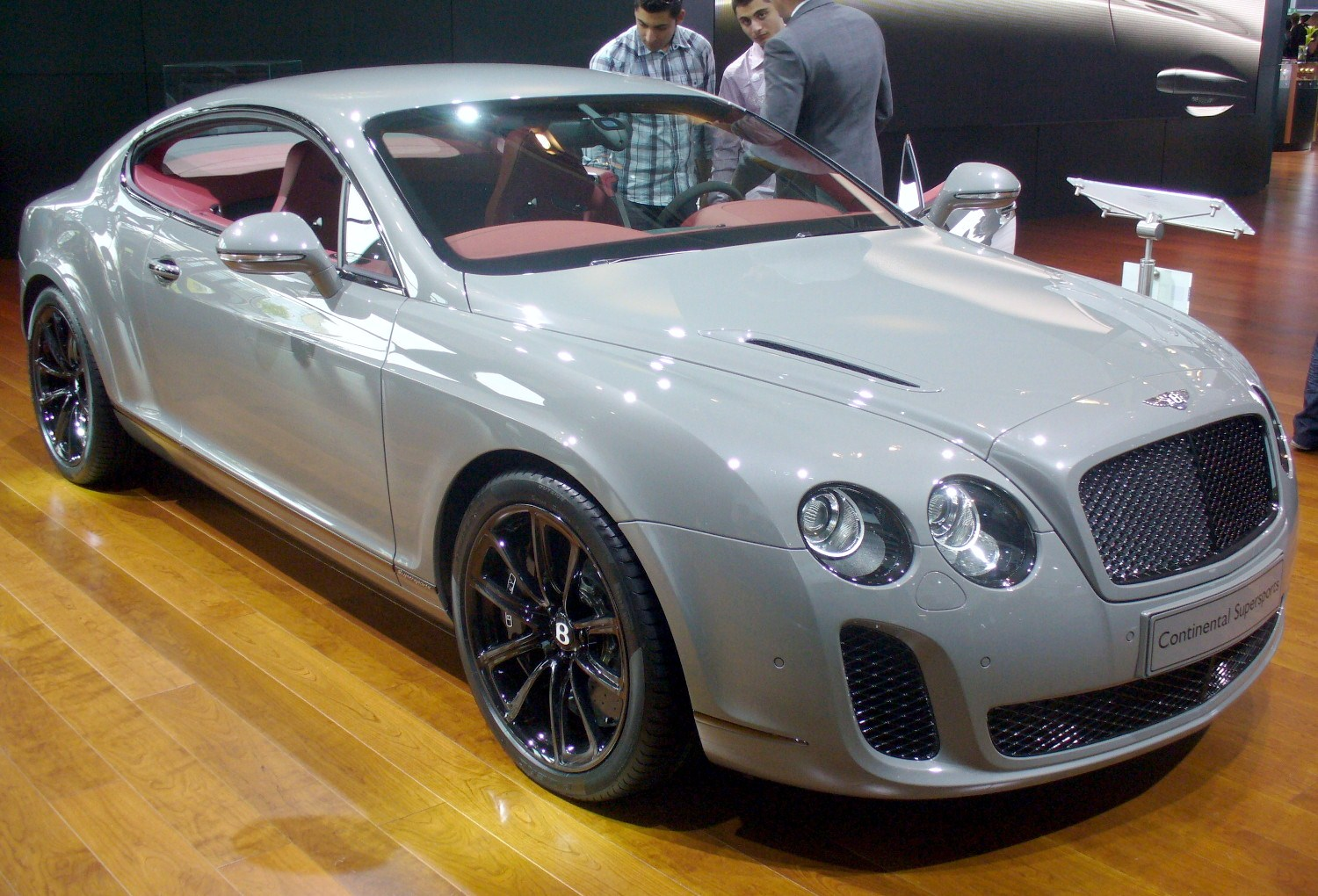 Bentley Continental Supersports